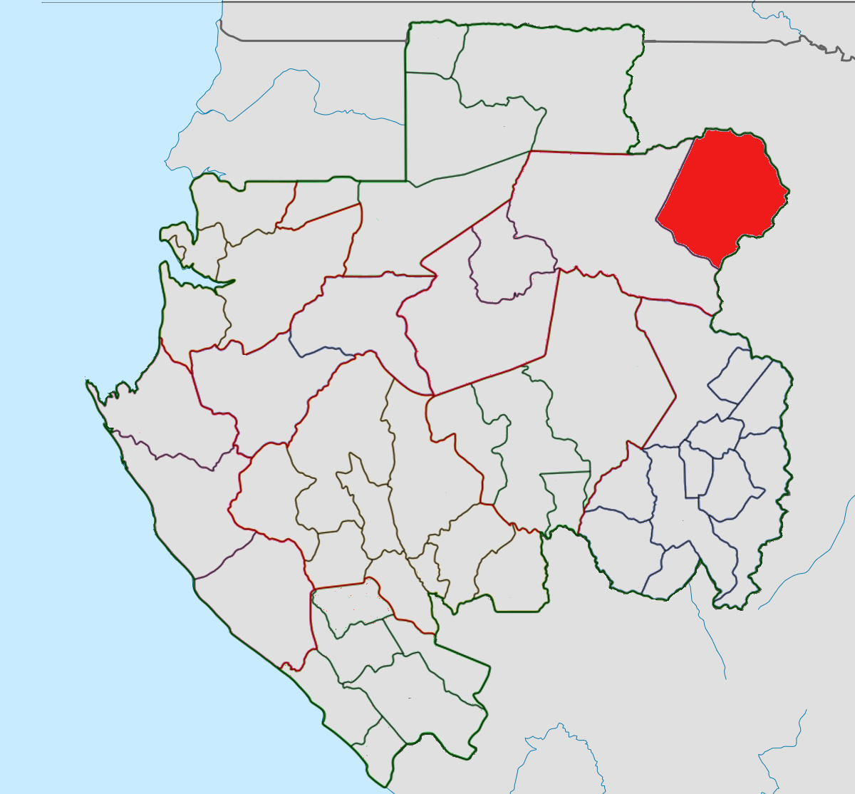 map of Zadié department